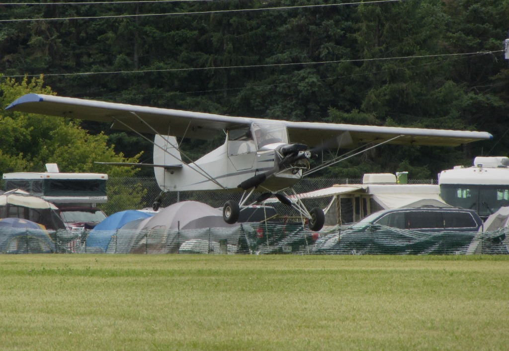 J5 Kitten